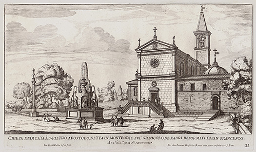 View of San Pietro in Montorio (Rome), engraving by Giovanni Battista Falda, c. 1670